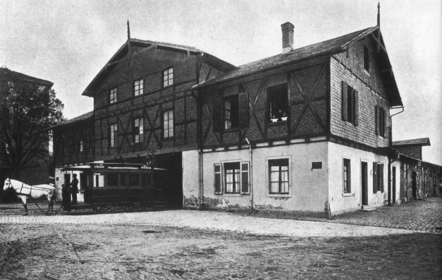 Horsecar of the Frankfurter Trambahn-Gesellschaft (FTG) at the in Frankfurt am Main-Bockenheim, ca. 1890